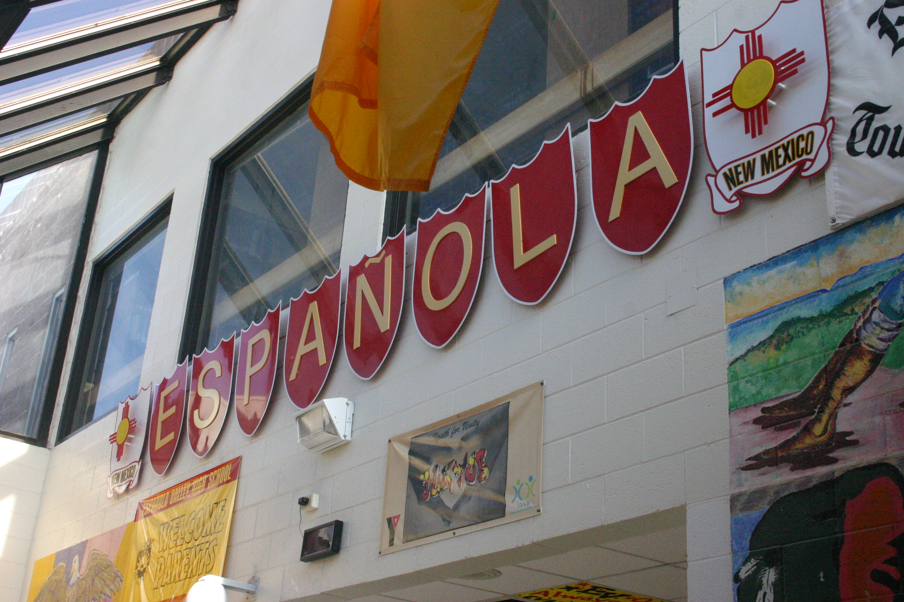 Lobby/Main Foyer of Española Valley High School